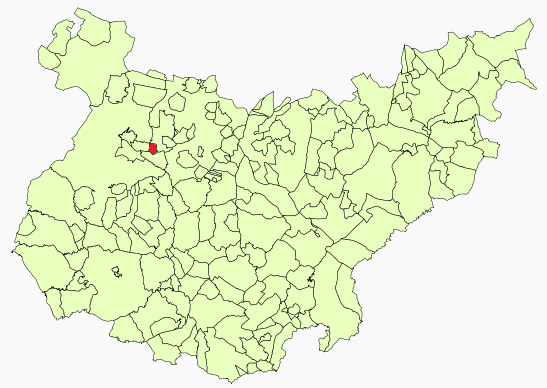 Puebla de la Calzada